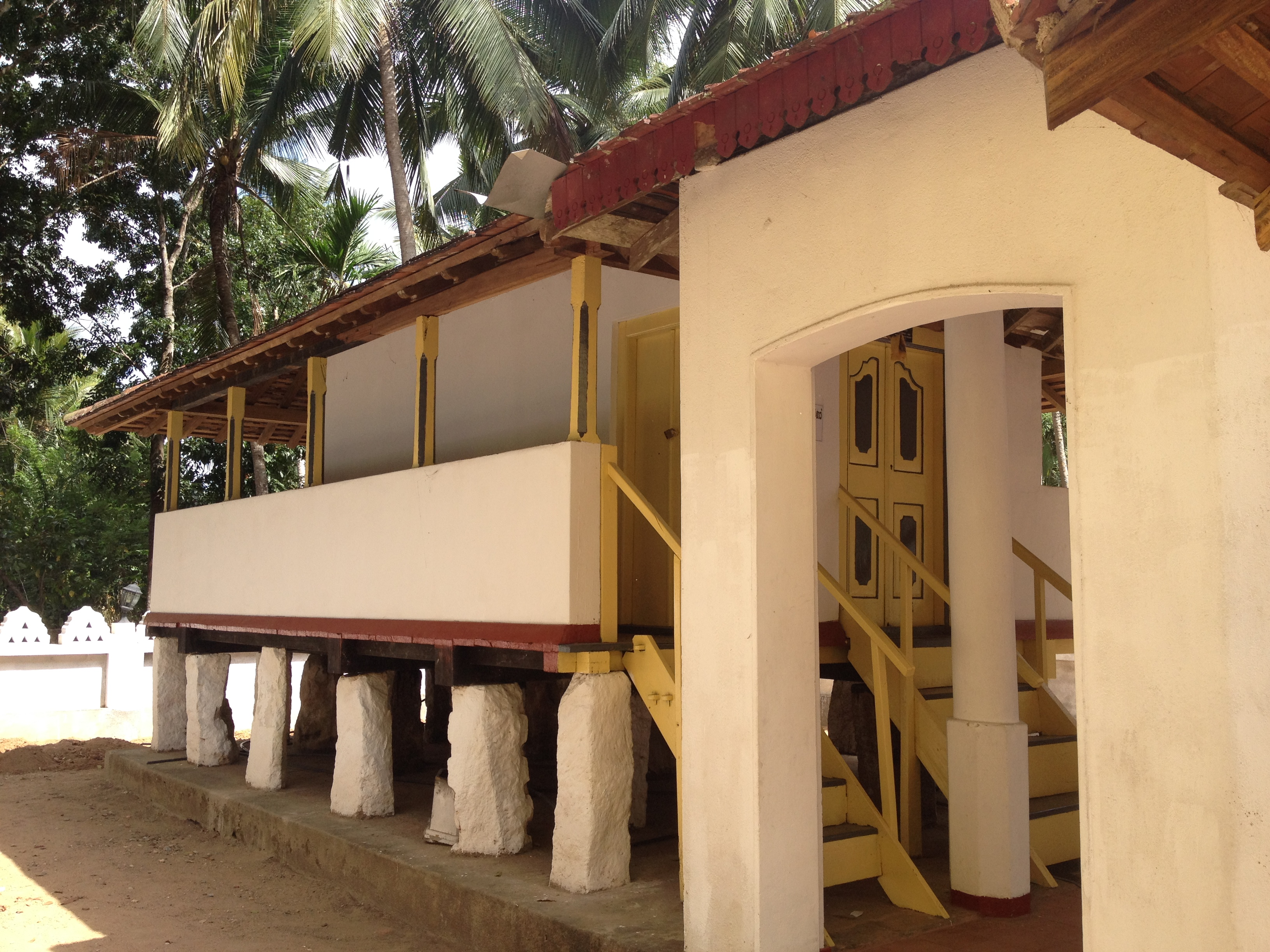 The Tempita building at Yatawatte Purana Vihara, Pahalagama, Gampaha, Sri Lanka